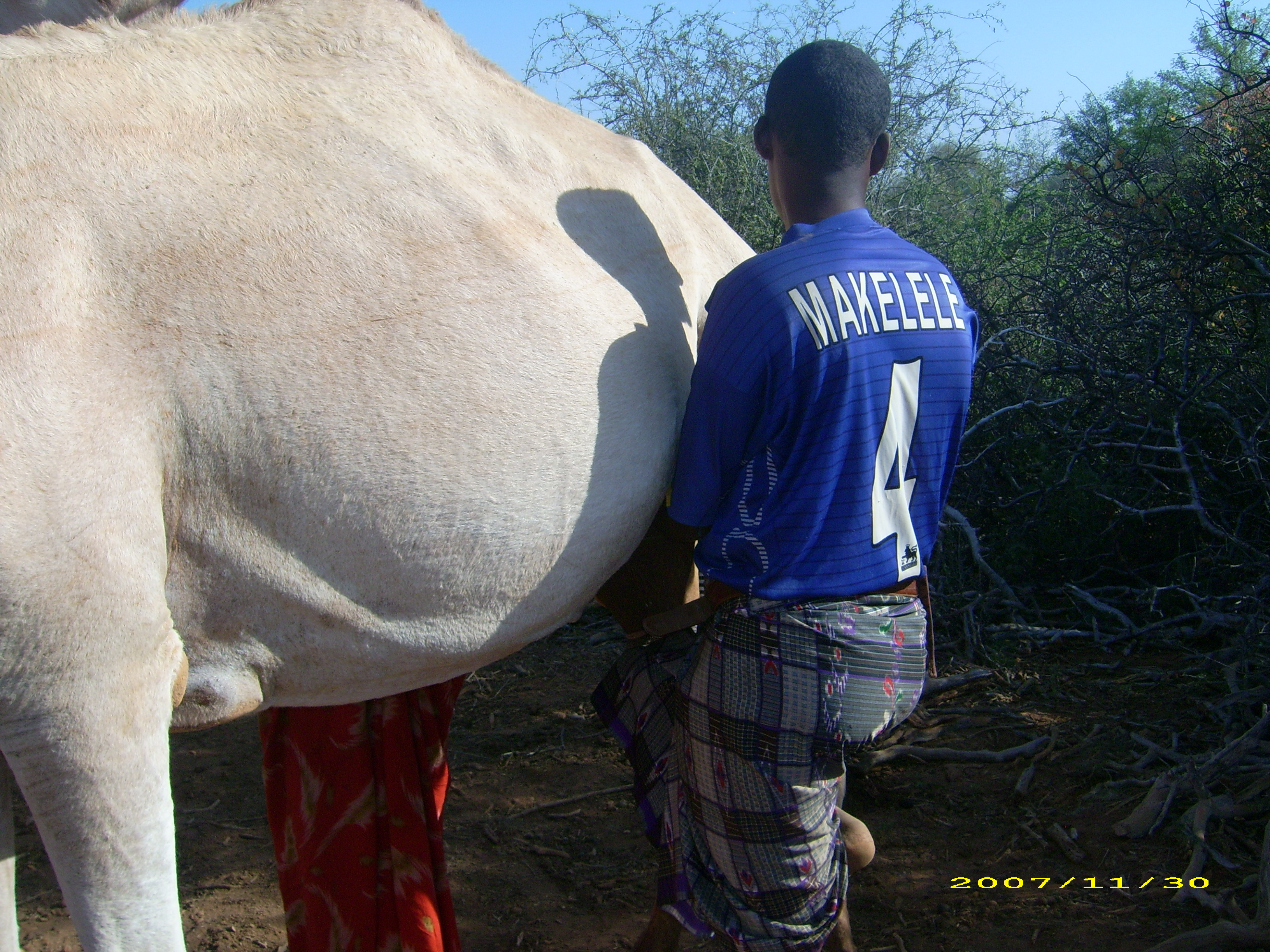 Milking an Camelidae